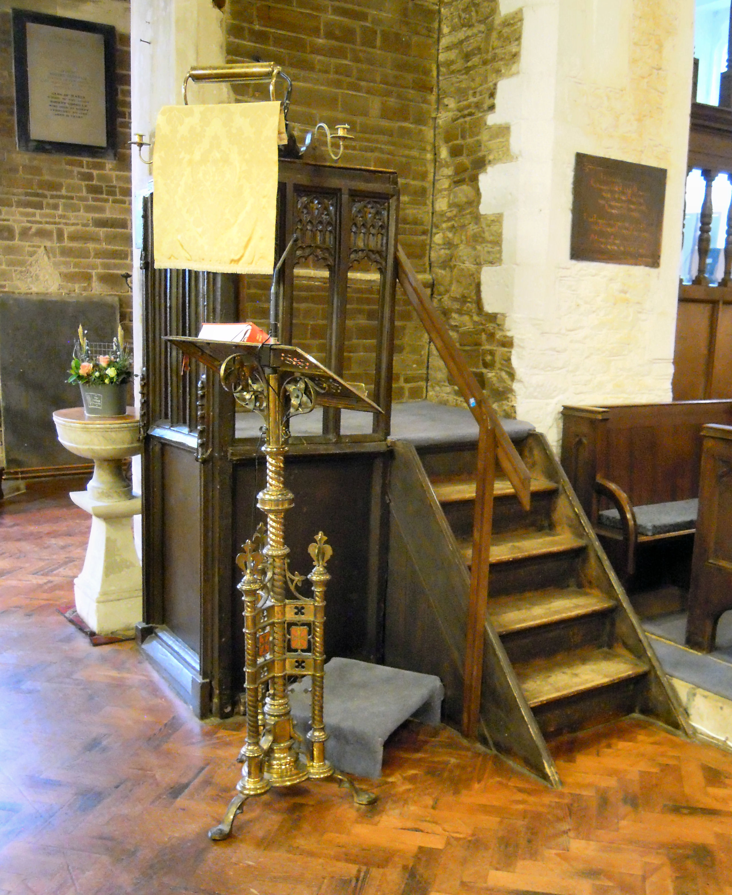 The lectern and pulpit at the Church of All Saints in Campton in Bedfordshire